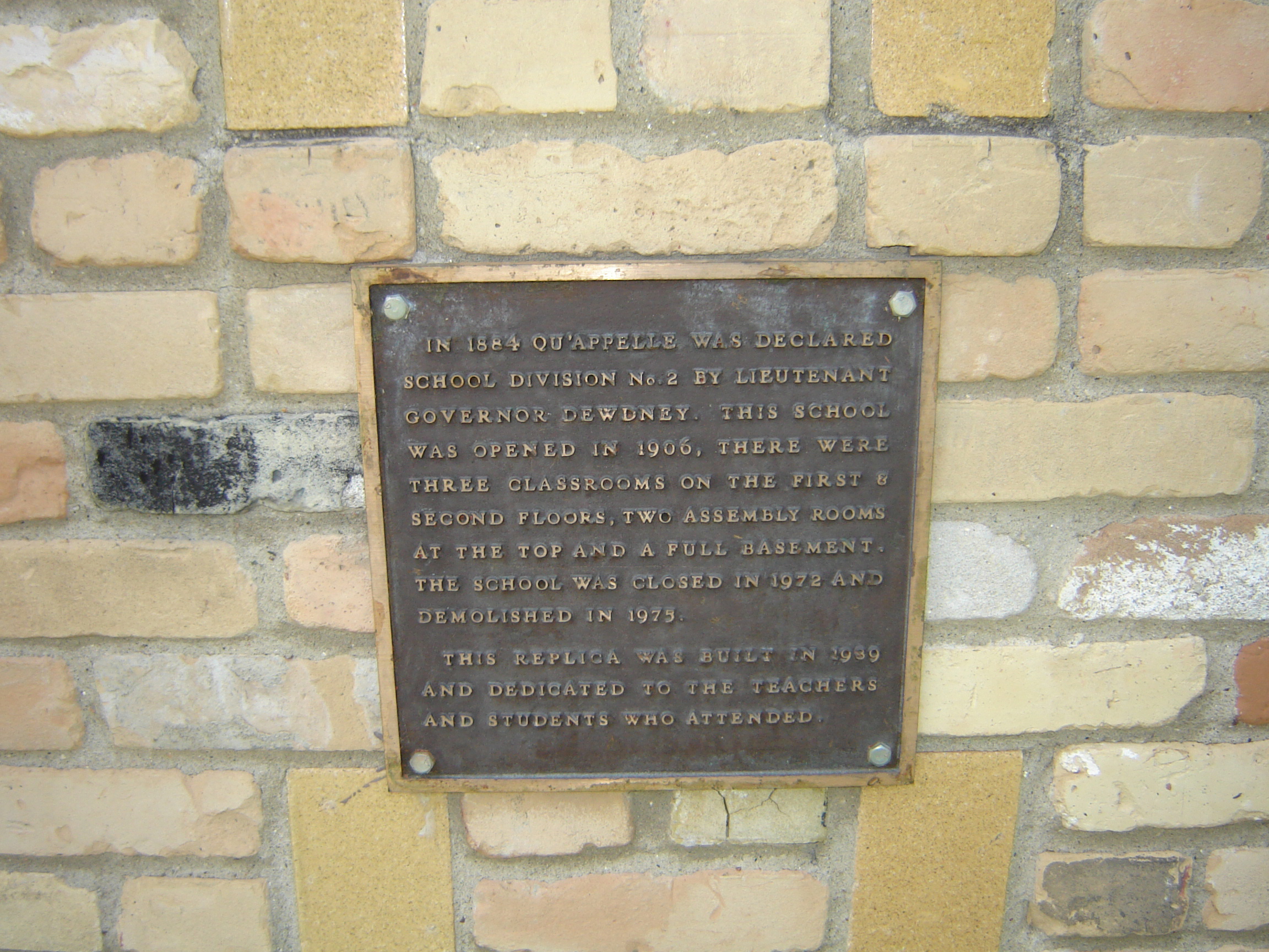 Qu'Appelle Saskatchewan school district #2 In 1884, Qu'Appelle was declared a school division by Lietenant Governor Dewdney. This School was opened in 1906. There were three classrooms on the first and second floors, two assembly rooms at the top and a full basement. The school was closed in 1972 and demolished in 1975. This replica was built in 1989 and dedicated to the teachers and students who attended.